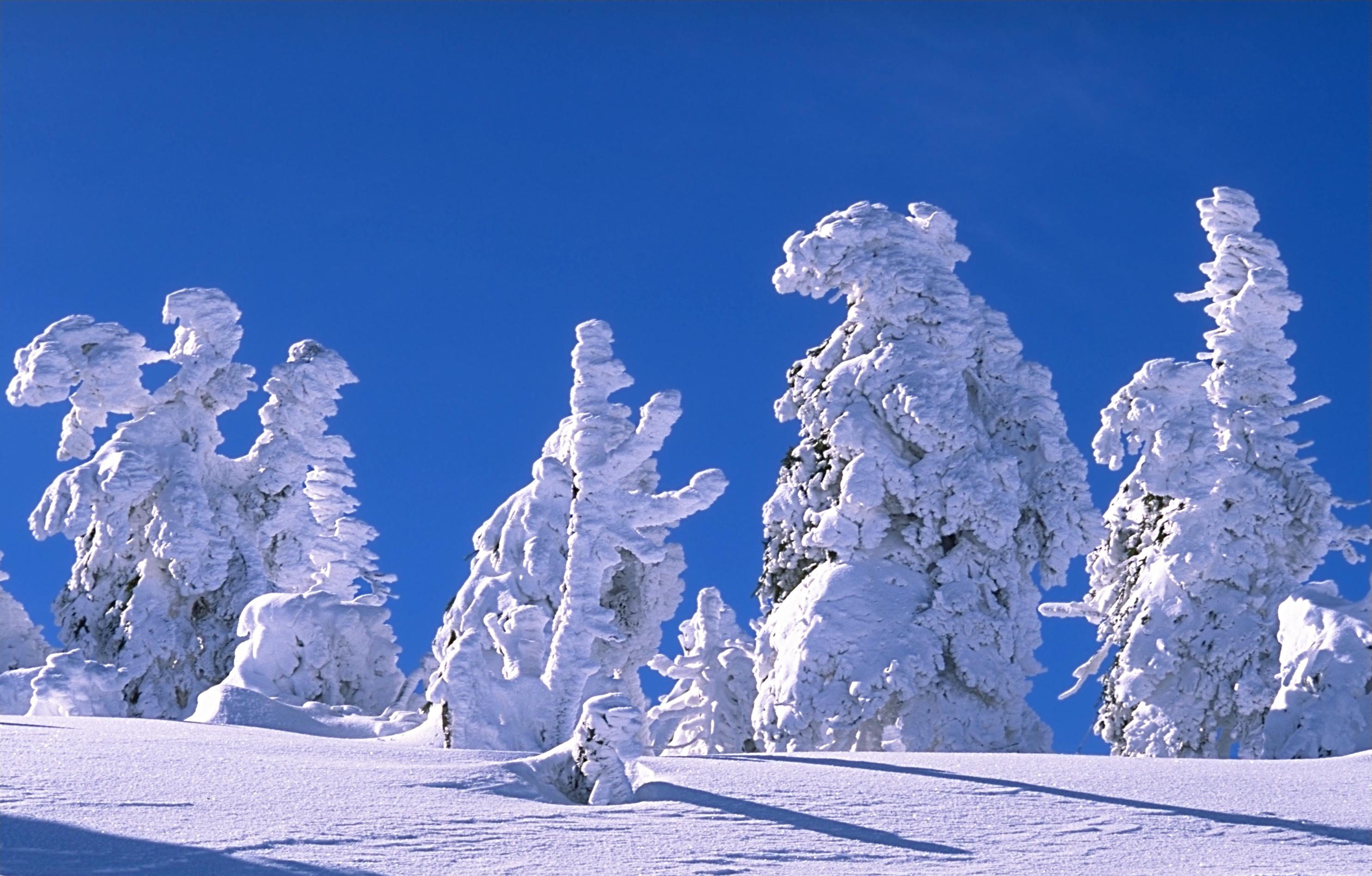 Rime ice on trees on the Brocken (mountain), Harz, Germany Photo was taken using the following technique: Film: Fuji Velvia Lens: 4/35-70 Filter: none Body: Minolta 9000 Support: Gitzo Monotrek Image with Information in English Bild mit Informationen auf Deutsch